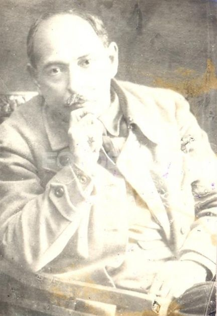 Nariman Narimanov